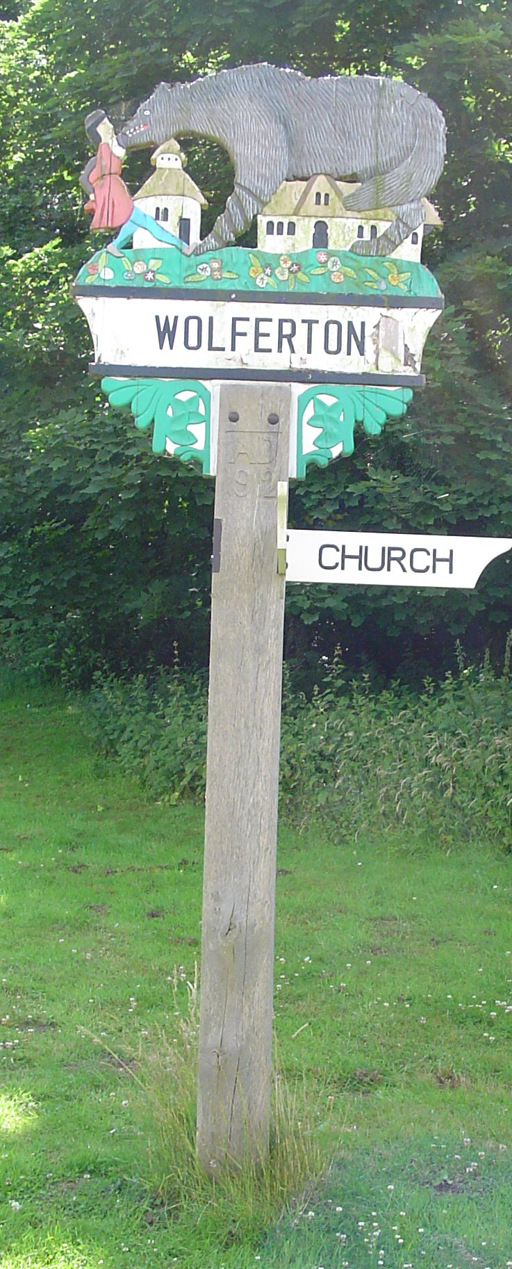 Signpost in Wolferton